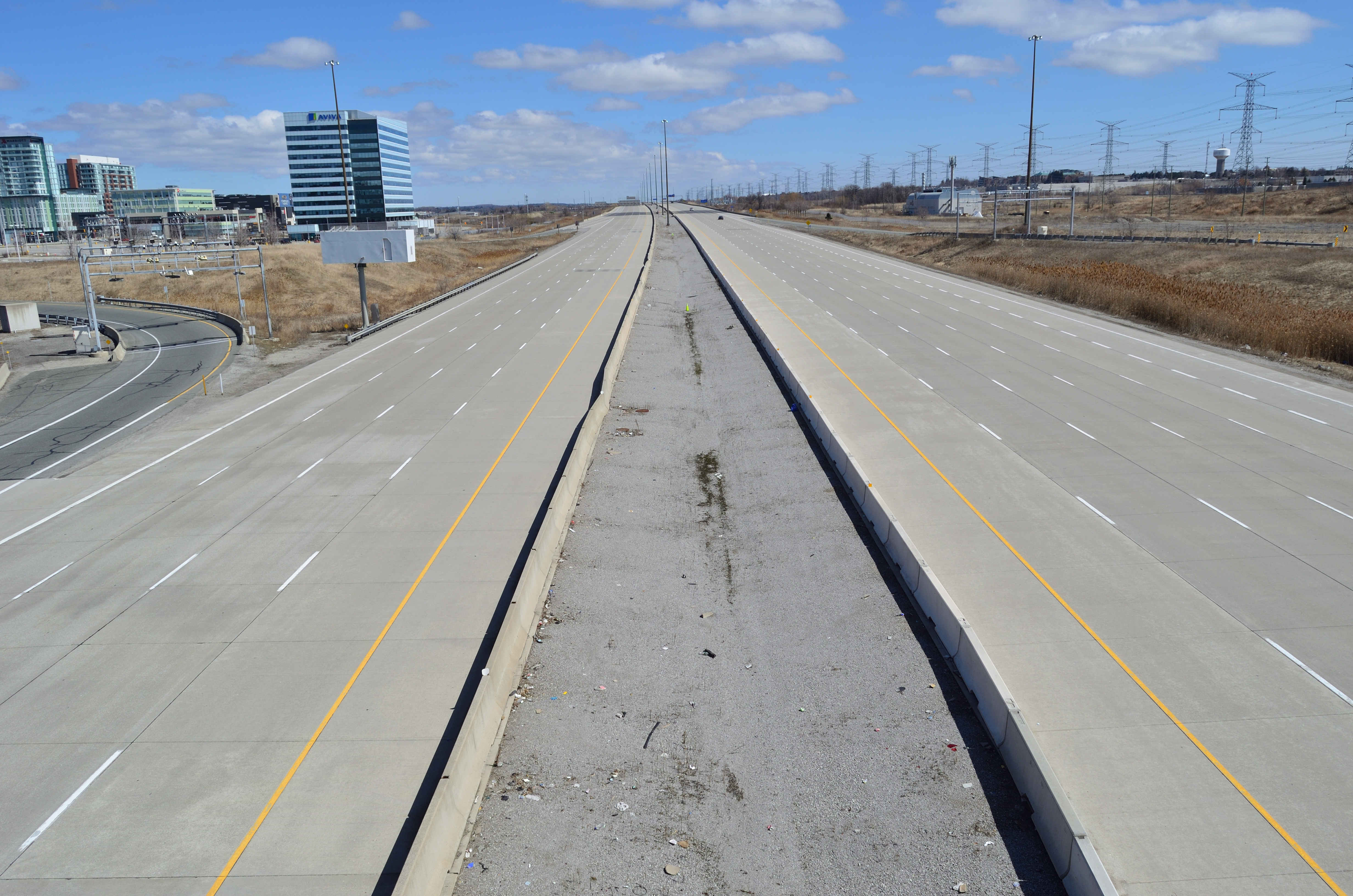 Hwy 407 - Very light traffic during the COVID-19 (Wuhan Coronavirus) outbreak